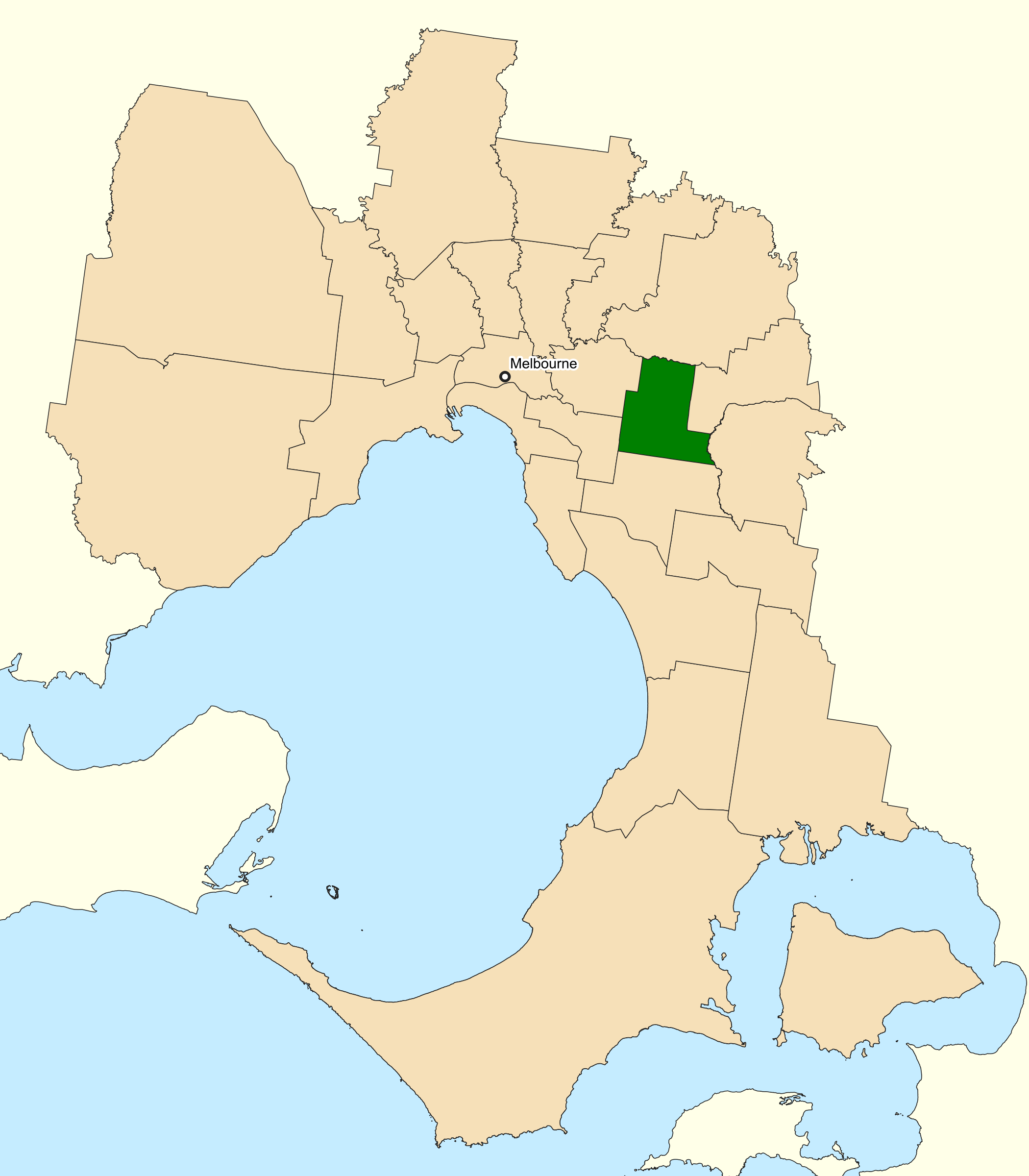 Location of the Australian federal electoral division of Chisholm (dark green) in Greater Melbourne, Victoria as of the 2019 Australian federal election. Incorporates or developed using Administrative Boundaries ©PSMA Australia Limited licensed by the Commonwealth of Australia under Creative Commons Attribution 4.0 International licence (CC BY 4.0).